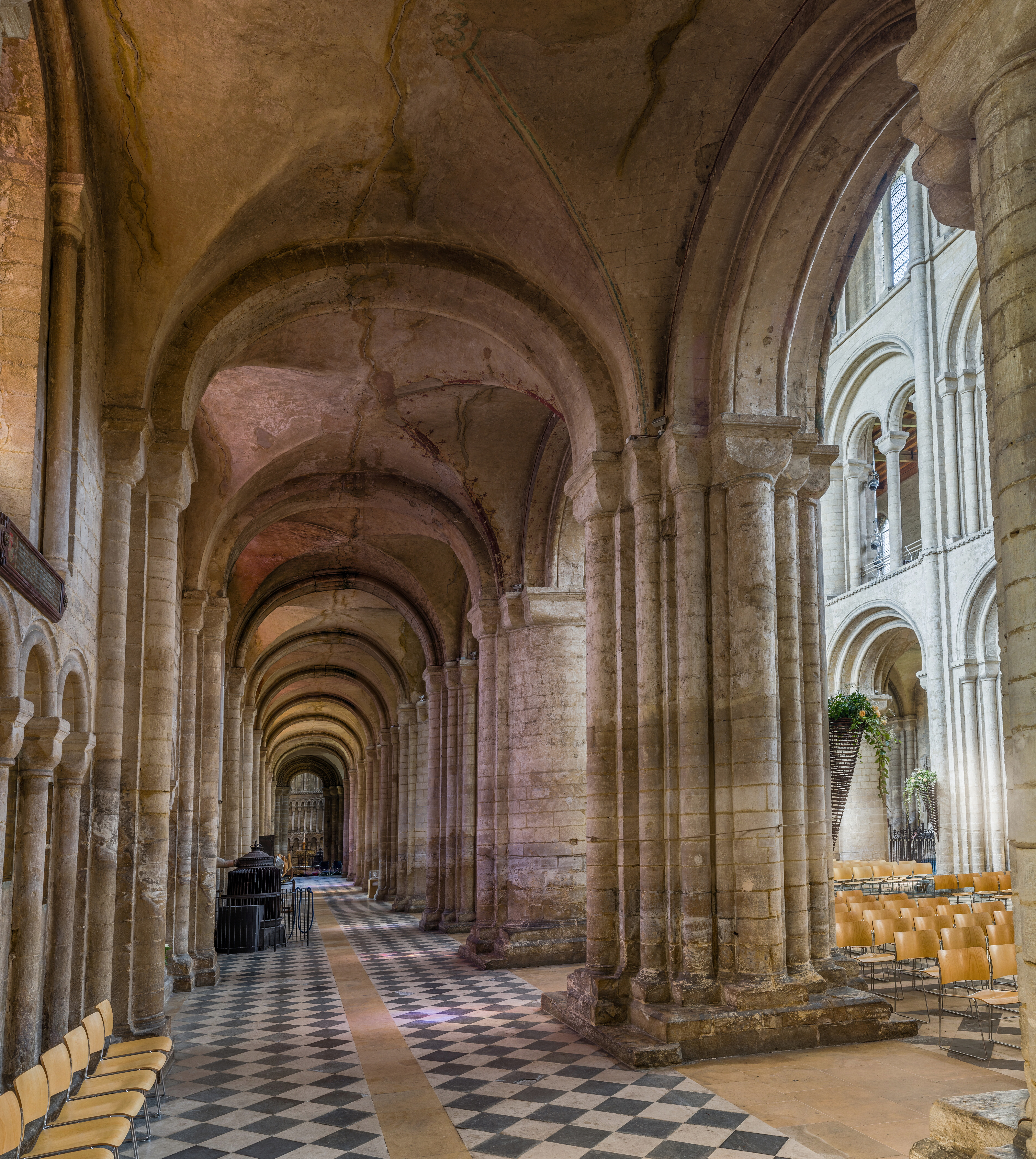 The south aisle of the nave of Ely Cathedral, Cambridgeshire, England.